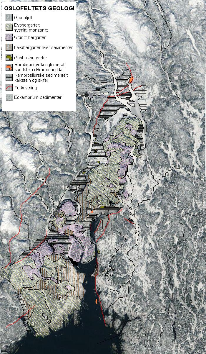 Geological map of the Oslo Rift (Oslofeltet), Norway